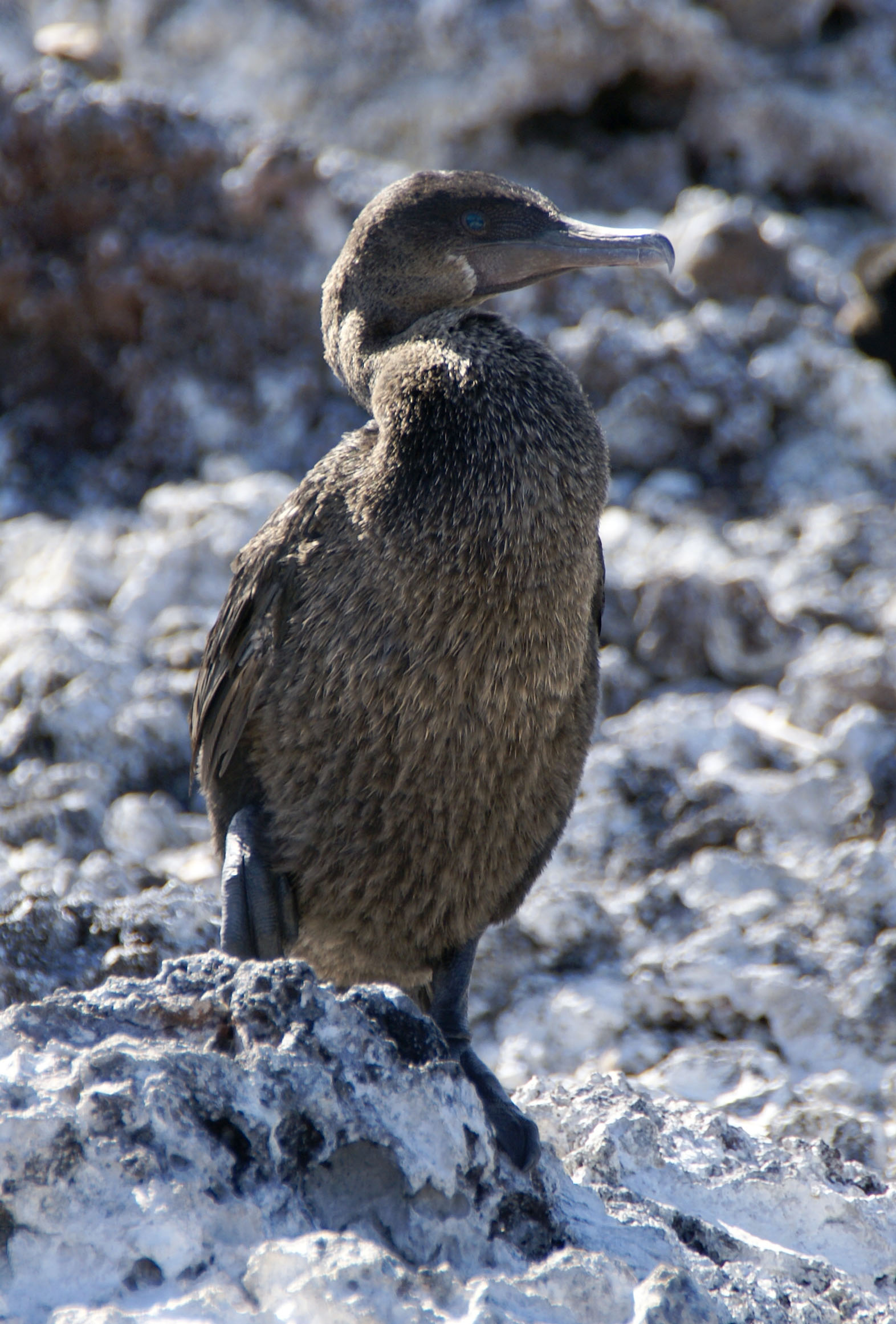 Flightless Cormorant (Phalacrocorax harrisi), also known as the Galapagos Cormorant standing on the ground.